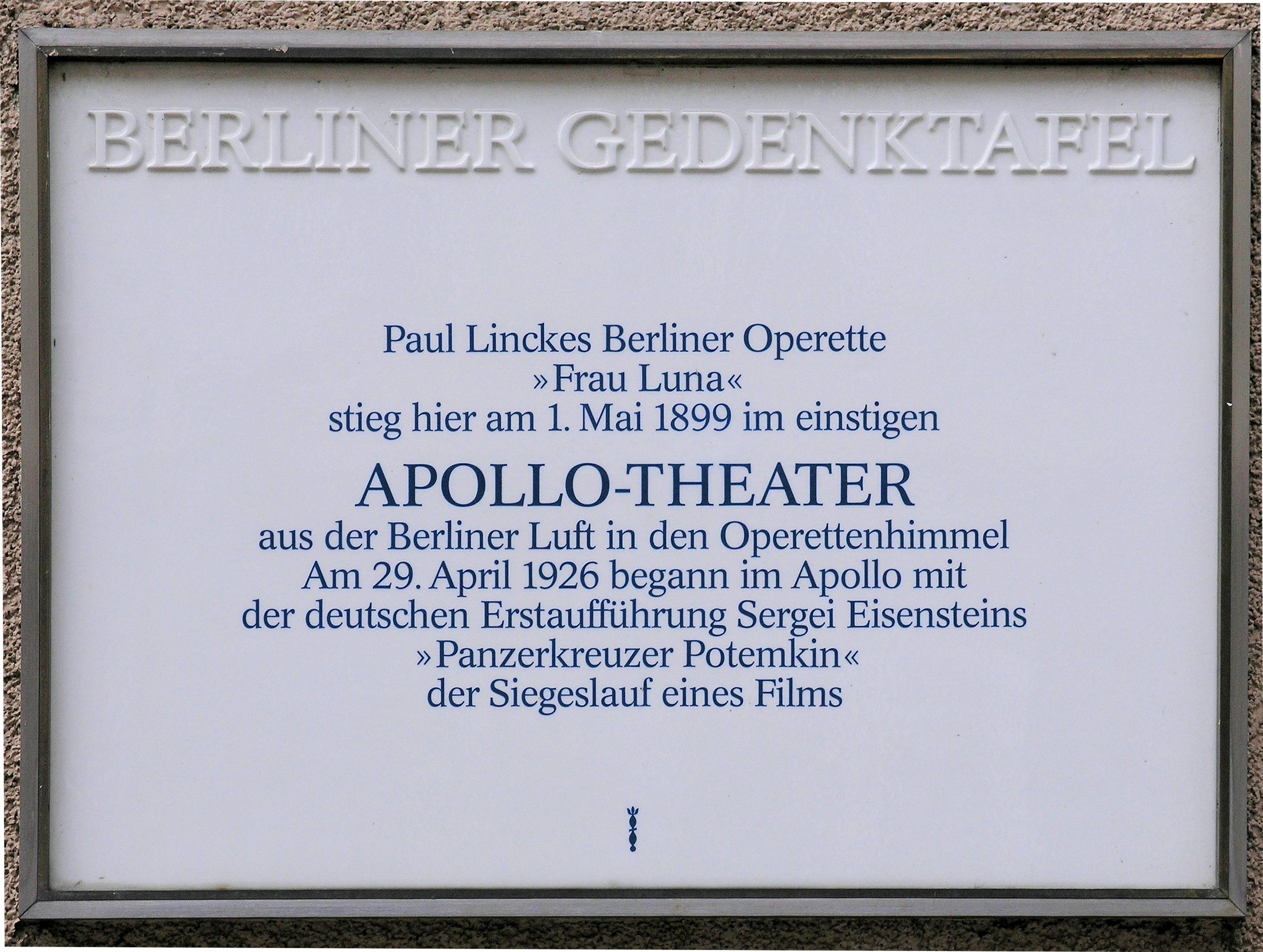 Berlin memorial plaque, Apollo Theater, Friedrichstr. 218, Berlin-Kreuzberg, Germany Koordinate:52°30′17.5″N 13°23′26.7″E / 52.504861°N 13.39075°E